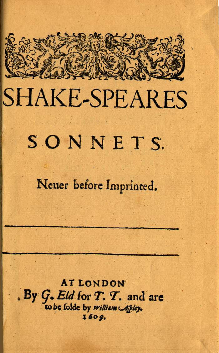 Title page of Shakespeare sonnets 1609